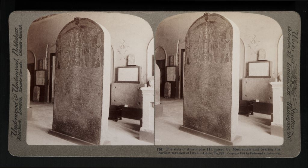 Stela